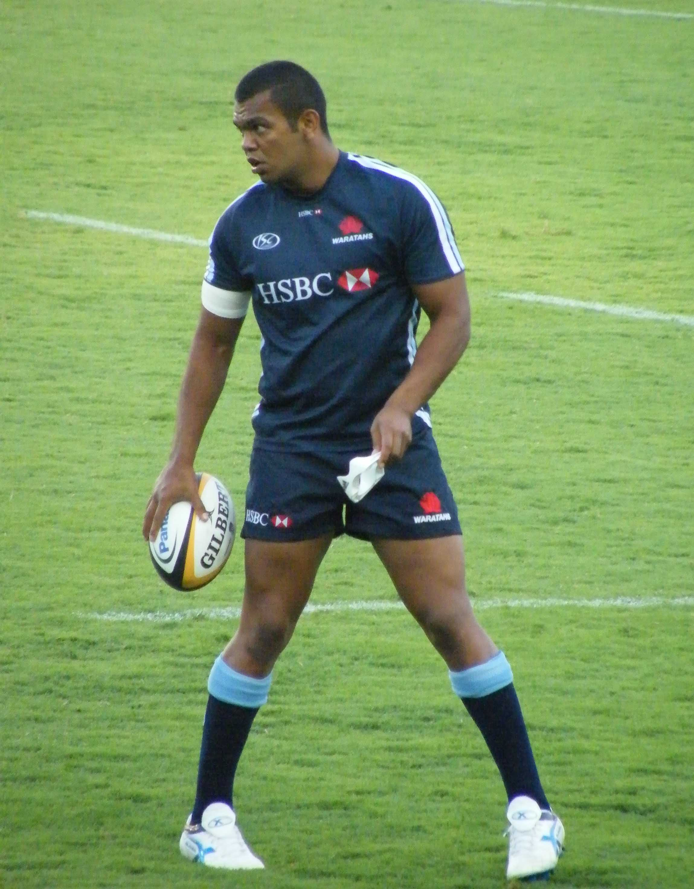 NSW Stand off Kurtley Beale.